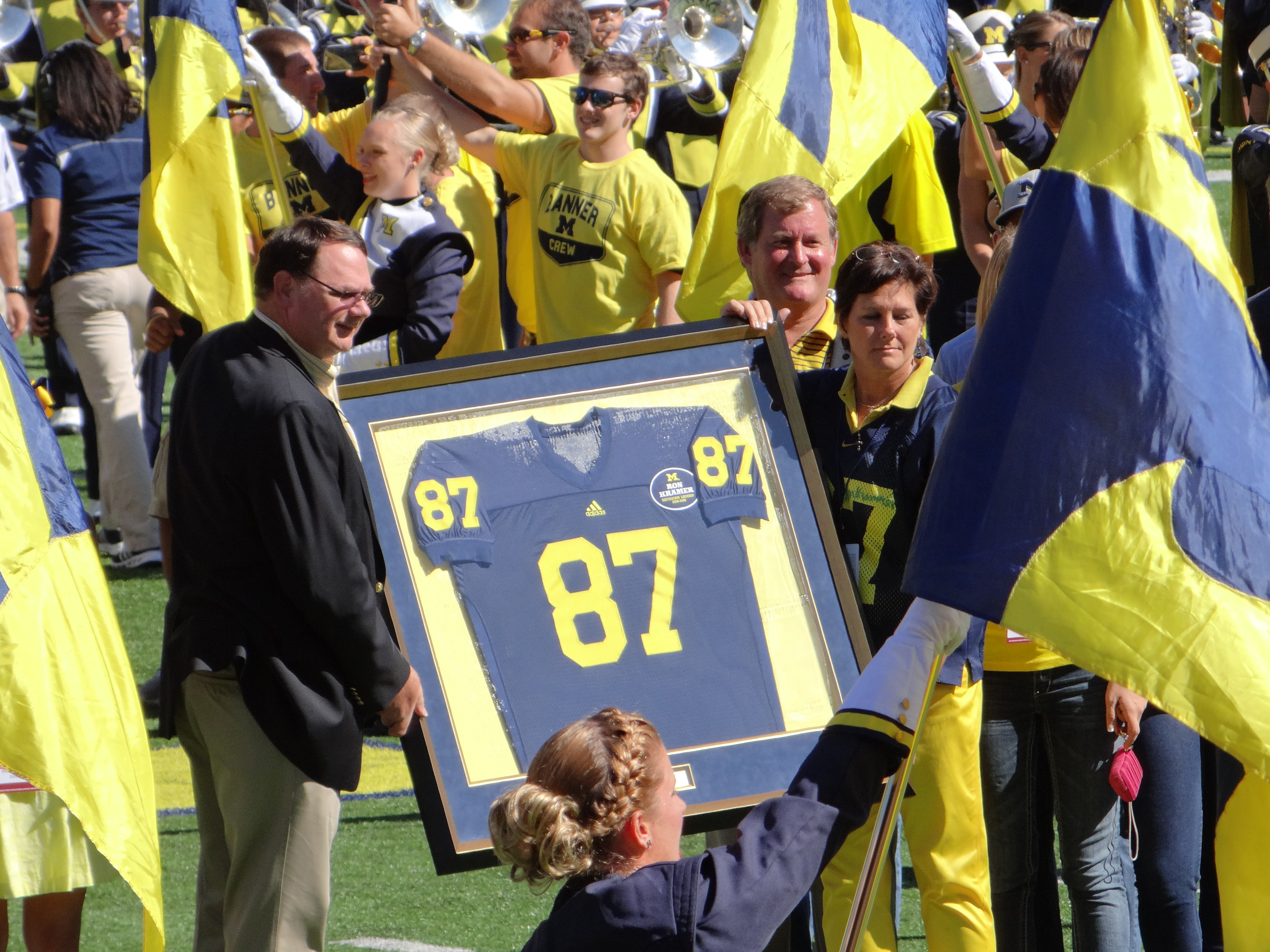 Ceremony at Michigan Stadium dedicating Ron Kramer's jersey as a "legends" jersey